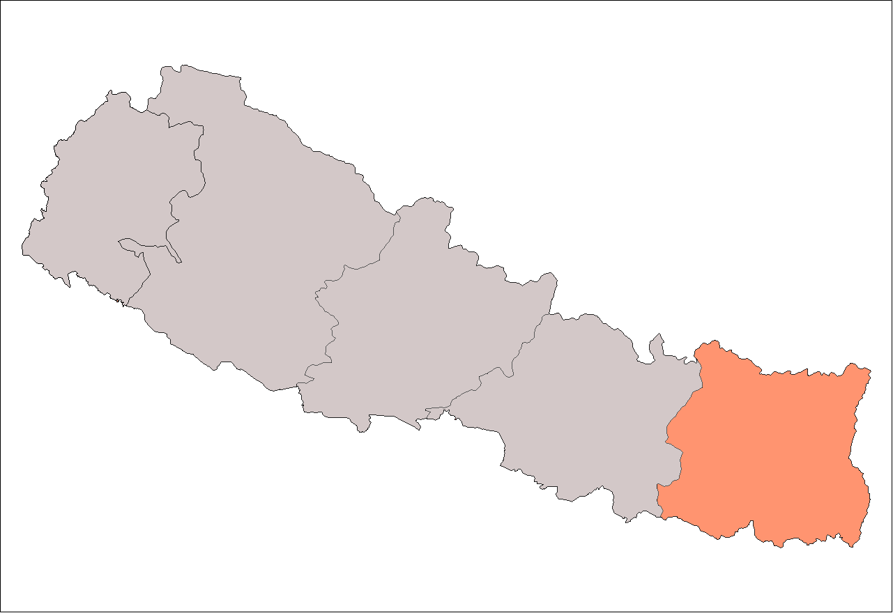 Location of Eastern Development Region